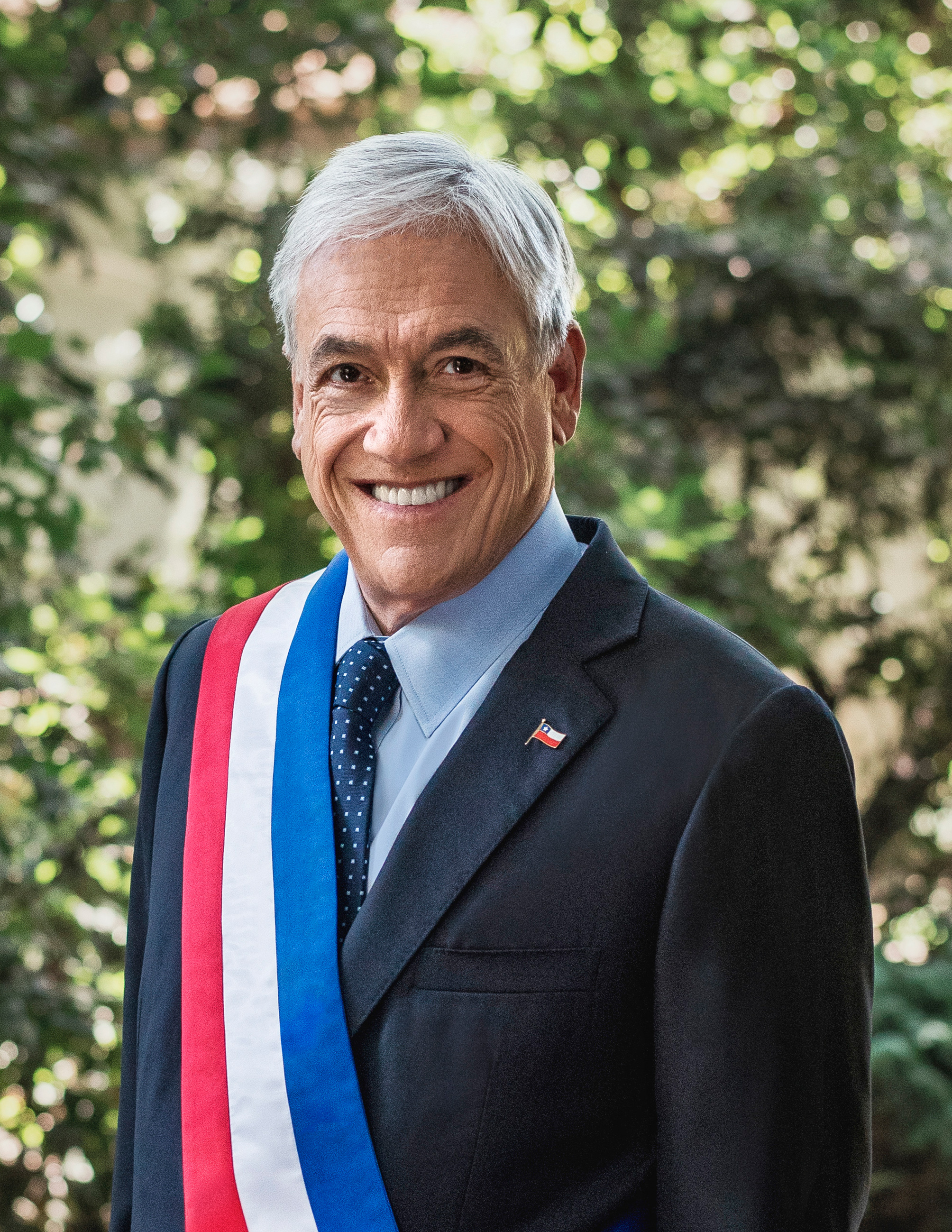 Official photograph of the President of the Republic 2018-2022, Sebastián Piñera Echenique.